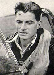 RAF Officer James Johnson, highest scoring Western Allies pilot against Luftwaffe.